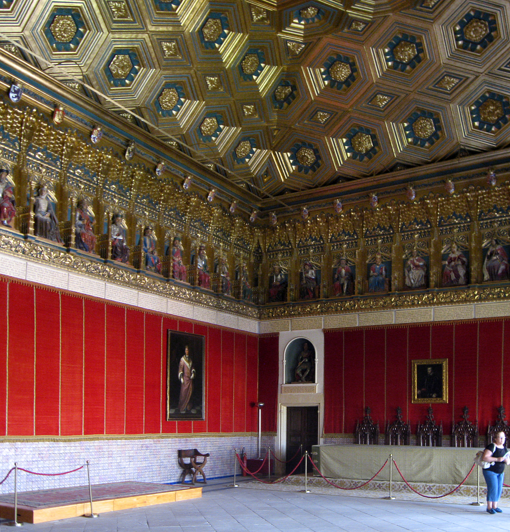 Hall of the Monarchs in the Alcázar of Segovia